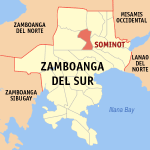 Map of Zamboanga del Sur showing the location of Sominot